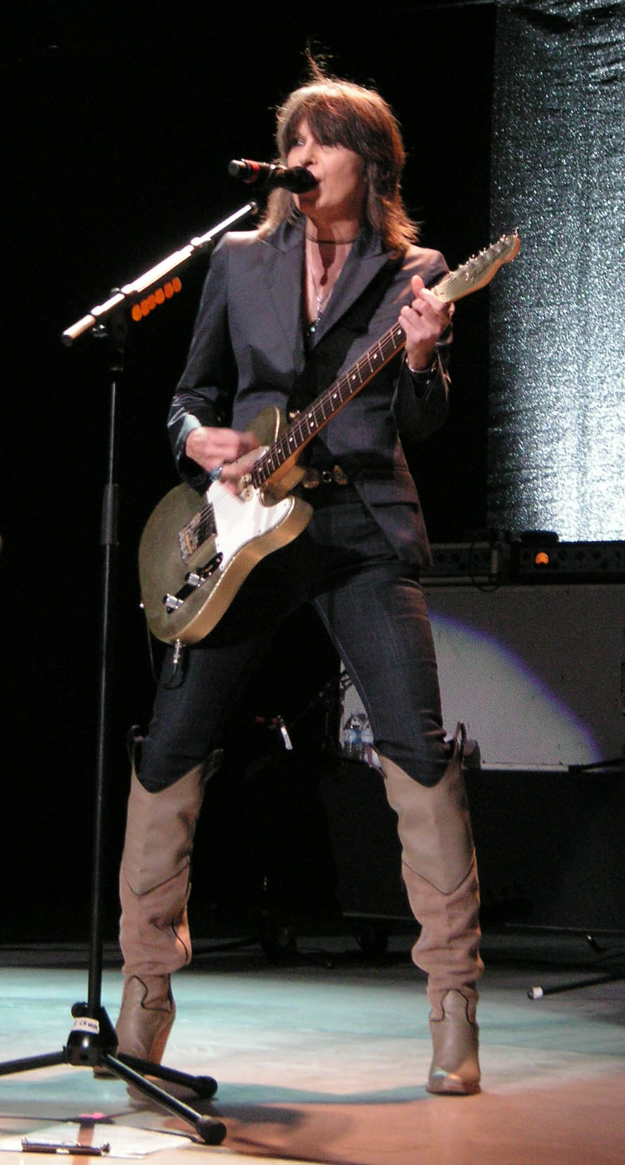 Chrissie Hynde in concert. Taken August 10, 2007 in Santa Barbara, CA by John Slonaker.